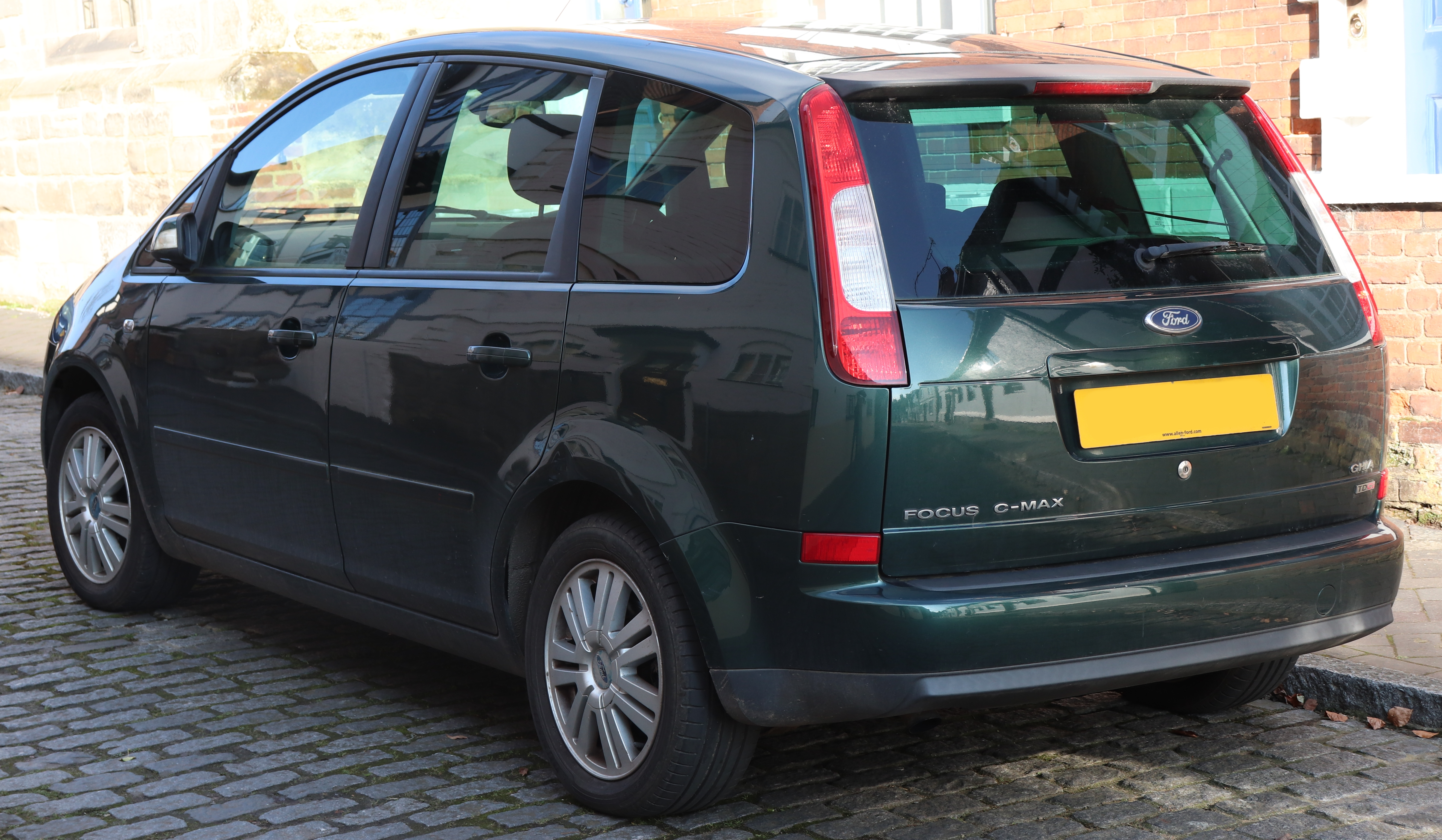 2005 Ford Focus C-Max Ghia 2.0 Rear Taken in Warwick